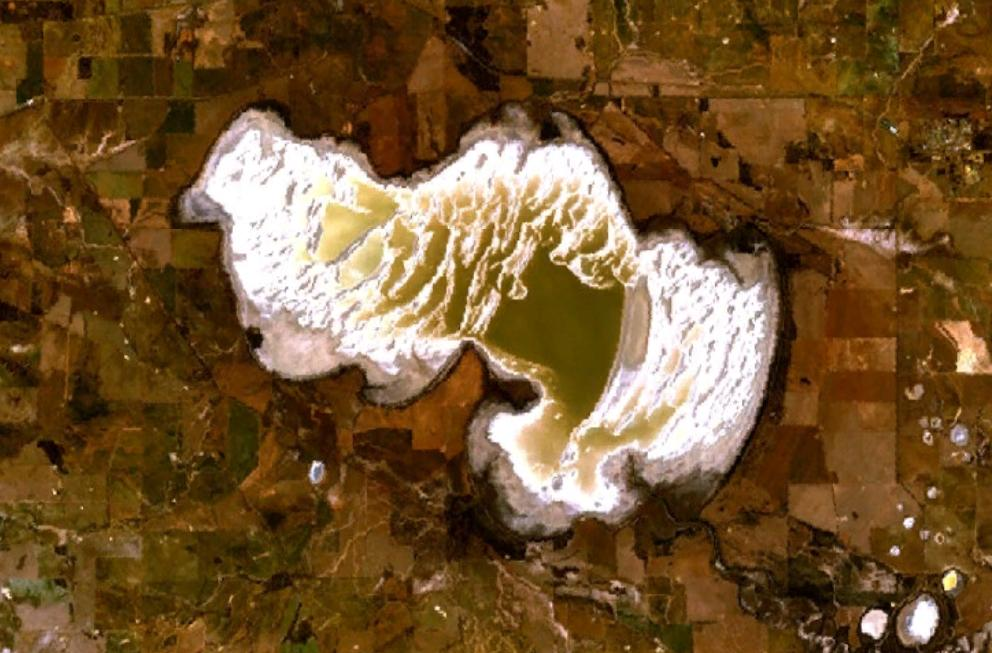 This is an image of Dumbleyung Lake, Western Australia.